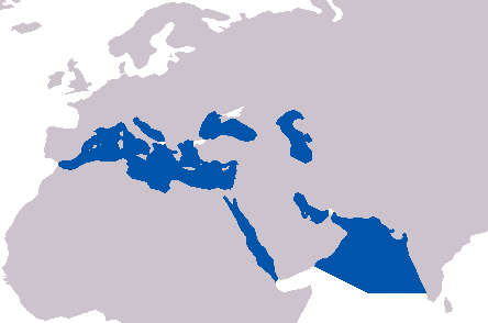 Image of the Seven Seas. Made from Vardion's world blank maps.